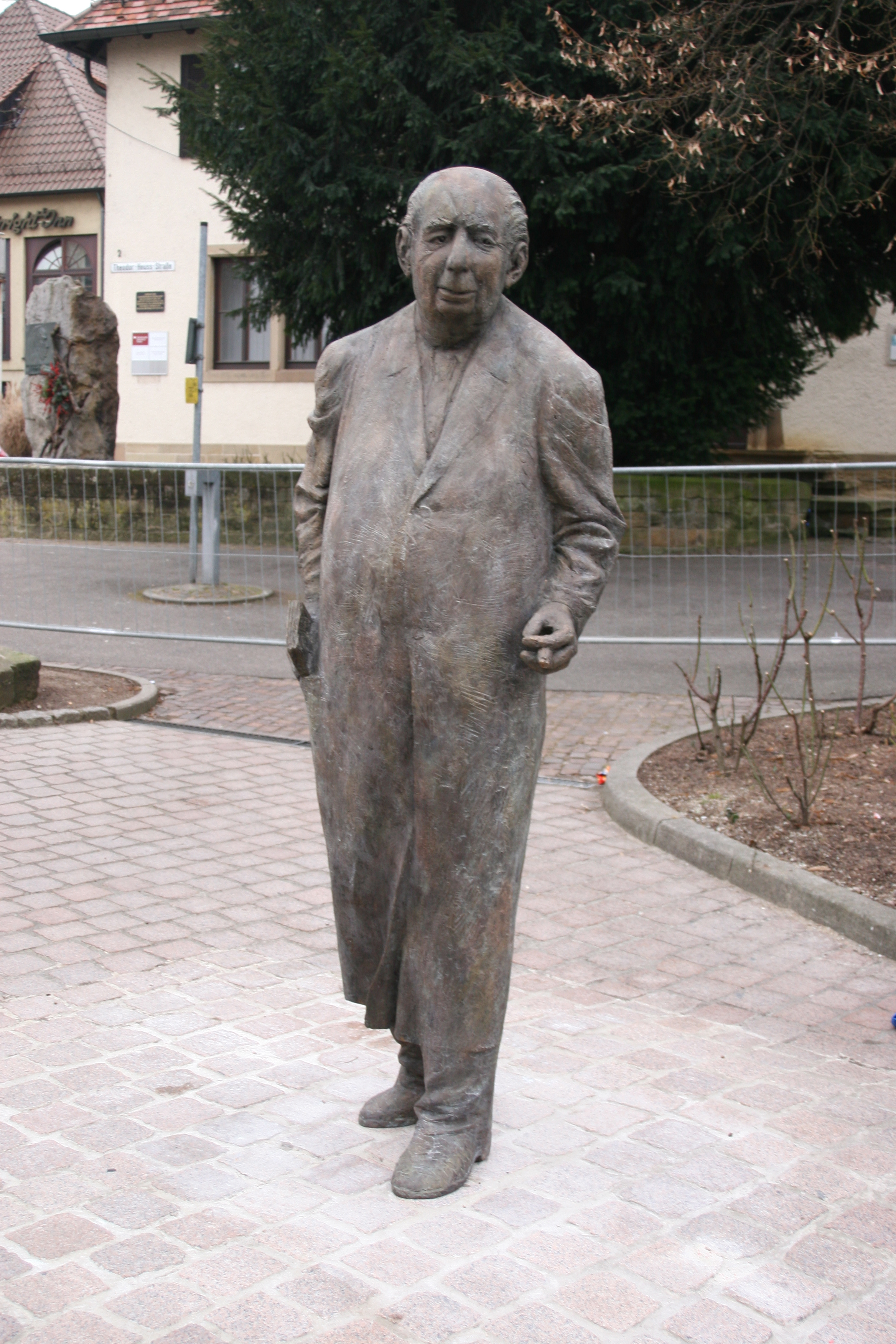 Statue of Theodor Heuss in Brackenheim